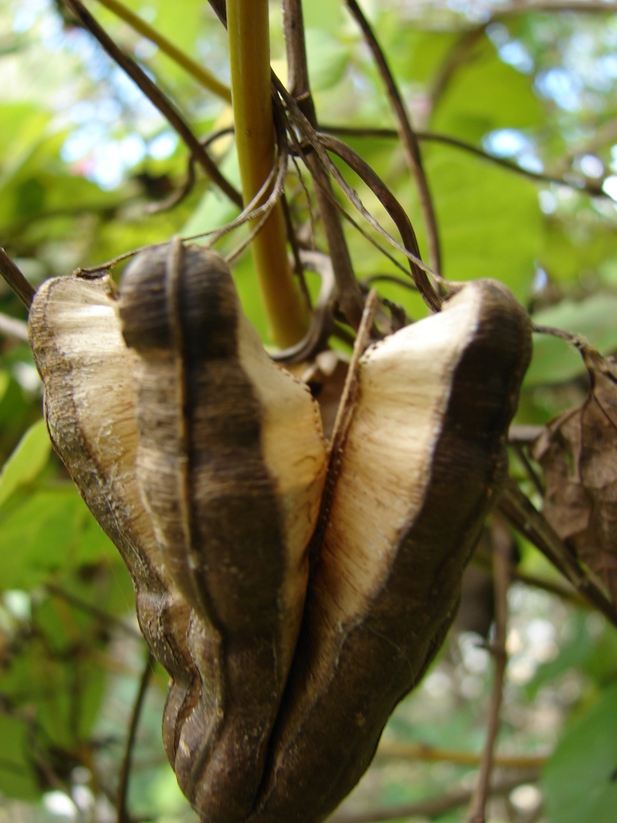 Aristolochia littoralis (dehisced fruit). Location: Maui, Enchanting Gardens of Kula